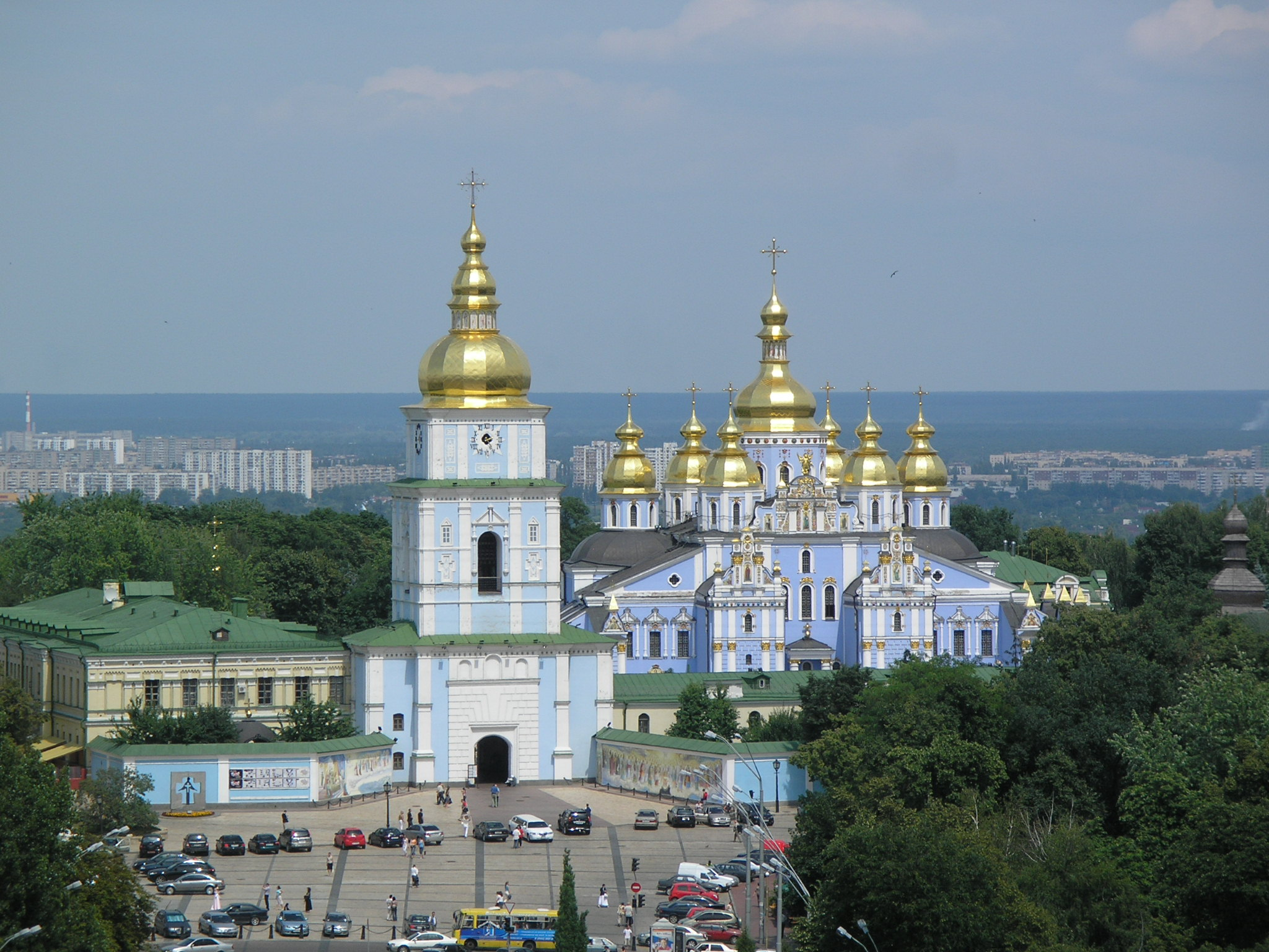 View of the St. Michael's Golden-Domed Cathedral in Kiev from the St. Sophia Belltower. Vue de la Cathédrale Saint-Michel au Dôme d'Or de Kiev depuis le clocher de Sainte Sophie.